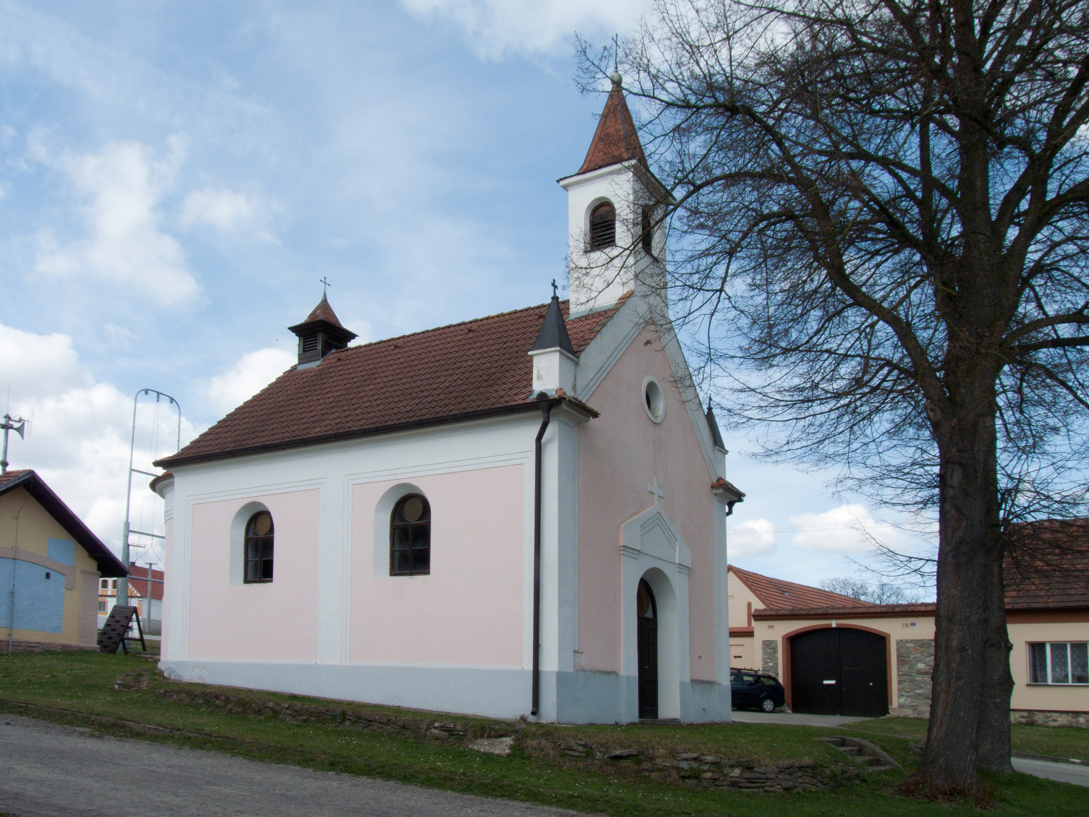 Chapel in the village of Chlumec, České Budějovice District, Czech Republic